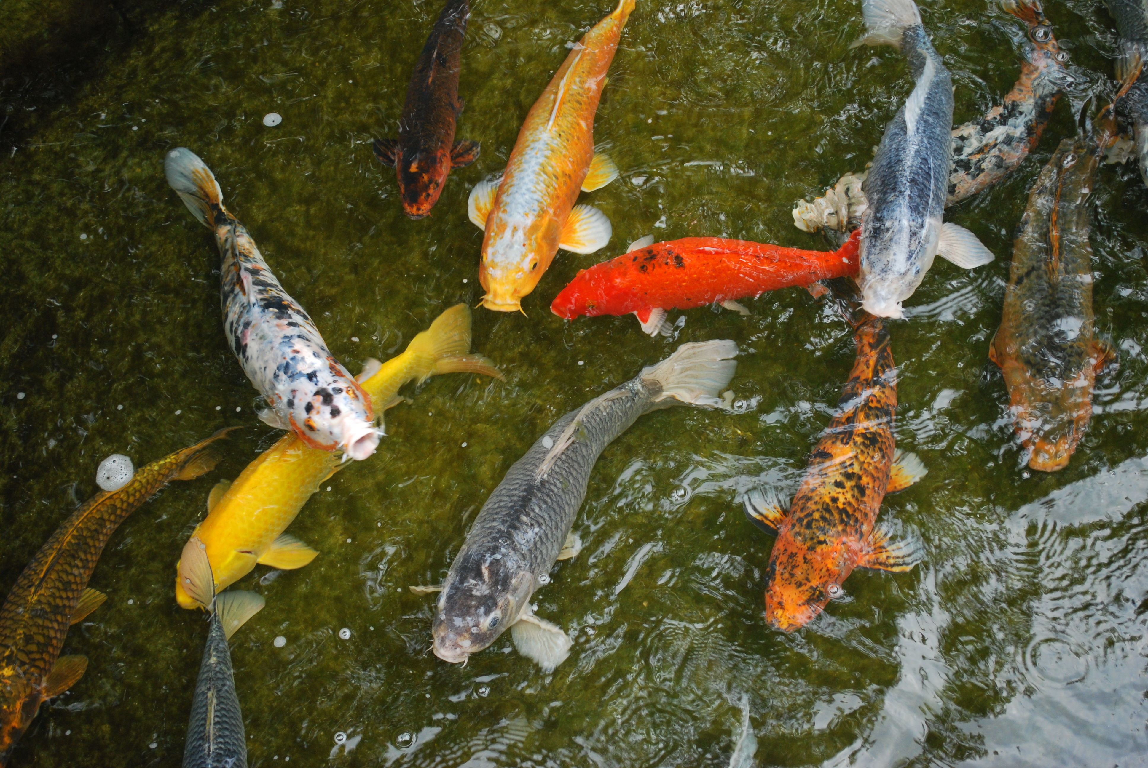 The japanese garden of Hasselt.